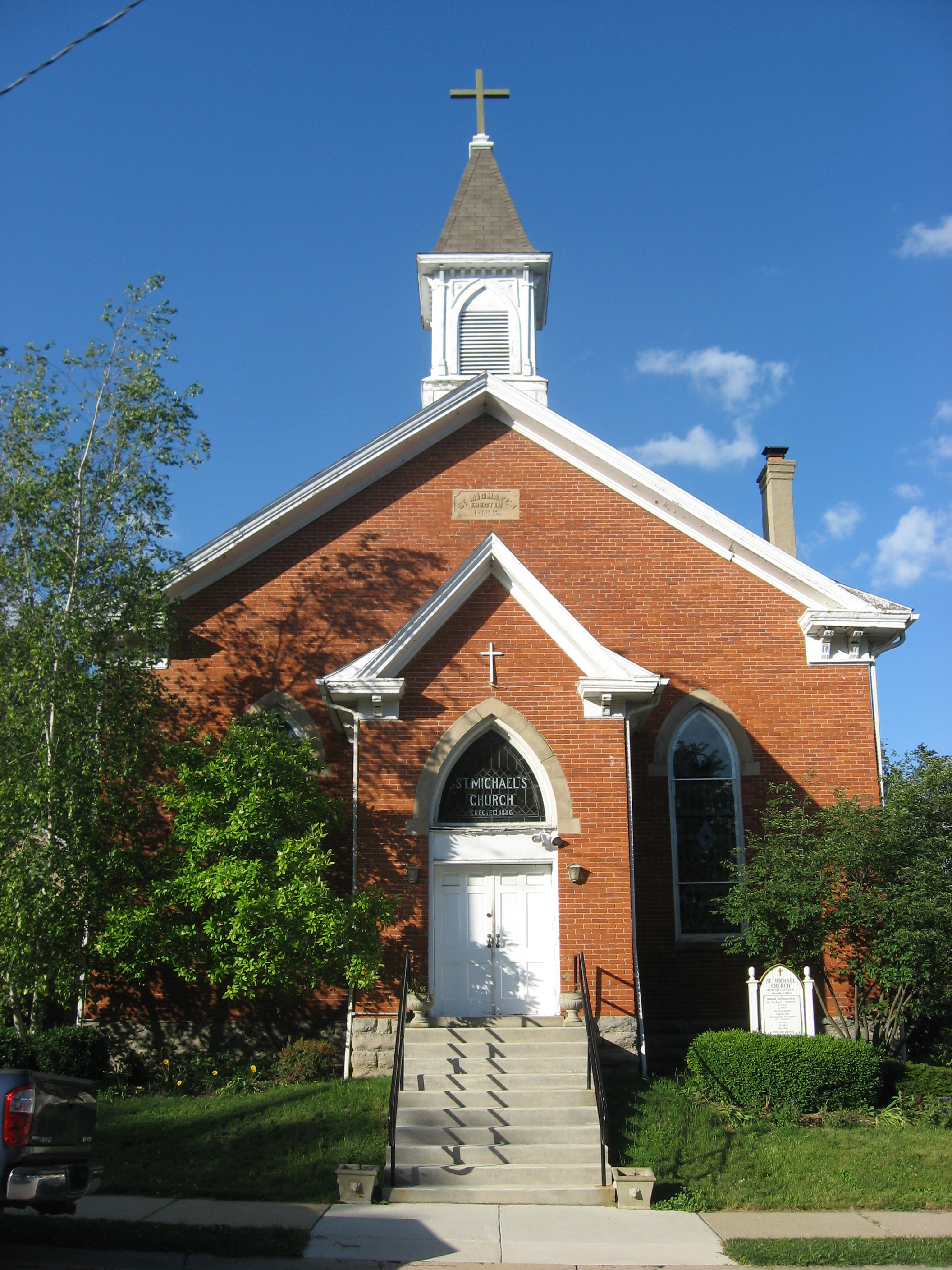 Front of St. Michael's Catholic Church, located at 40 Walnut Street in Mechanicsburg, Ohio, United States. Built in 1888, it is listed on the National Register of Historic Places.